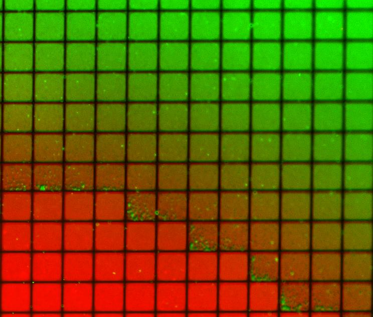 Supported lipid bilayer patterned by corrals in the underlying substrate. Two populations of lipids were used to make the bilayer - one fluorescently labeled with rhodamine and the other with fluorescein.